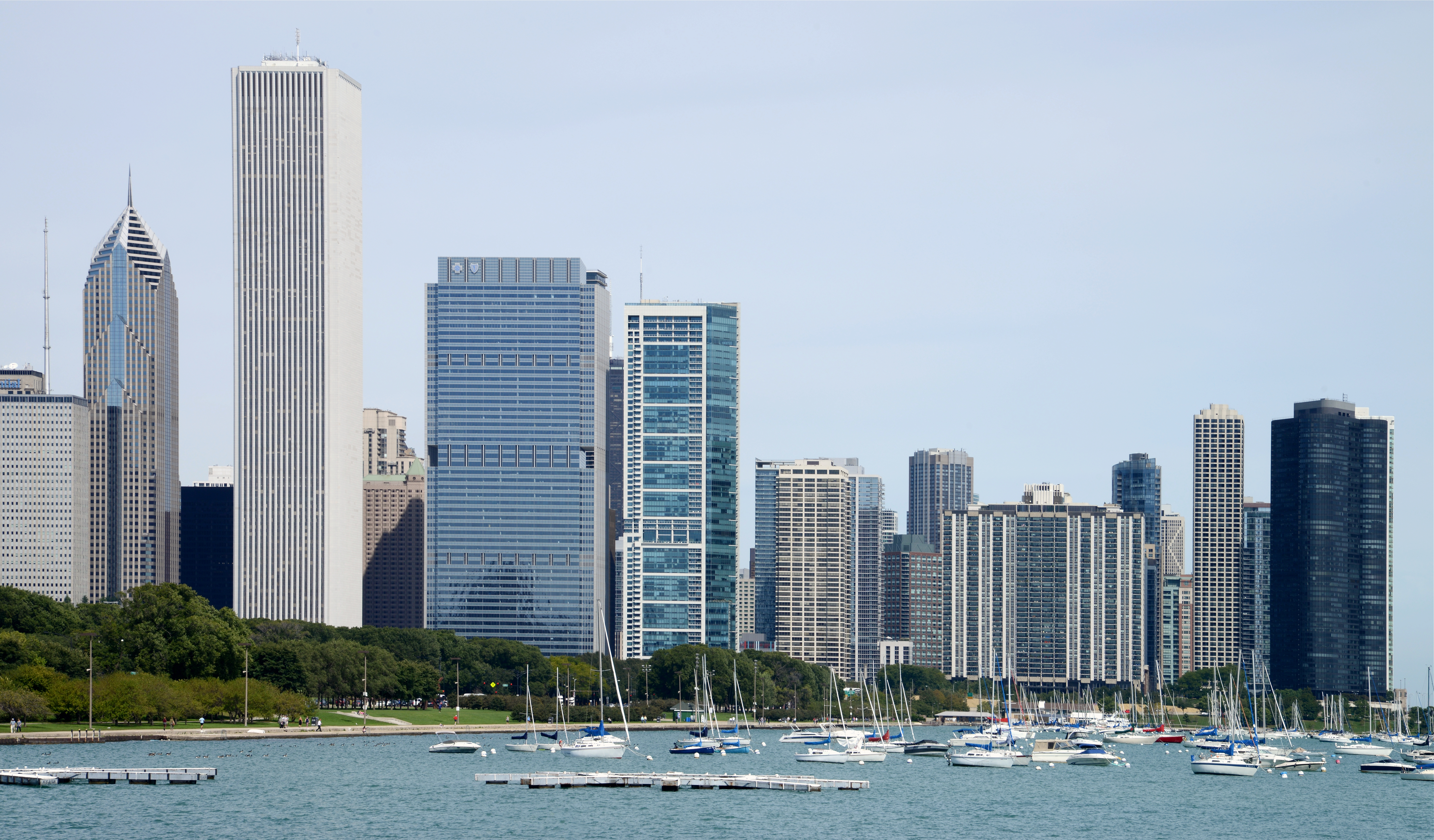 Skyline of Chicago from near the Adler Planetarium